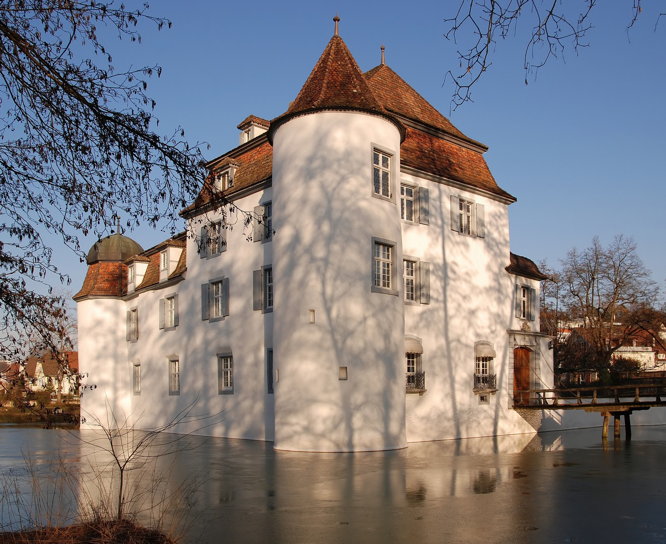 Watercastle Bottmingen, Switzerland